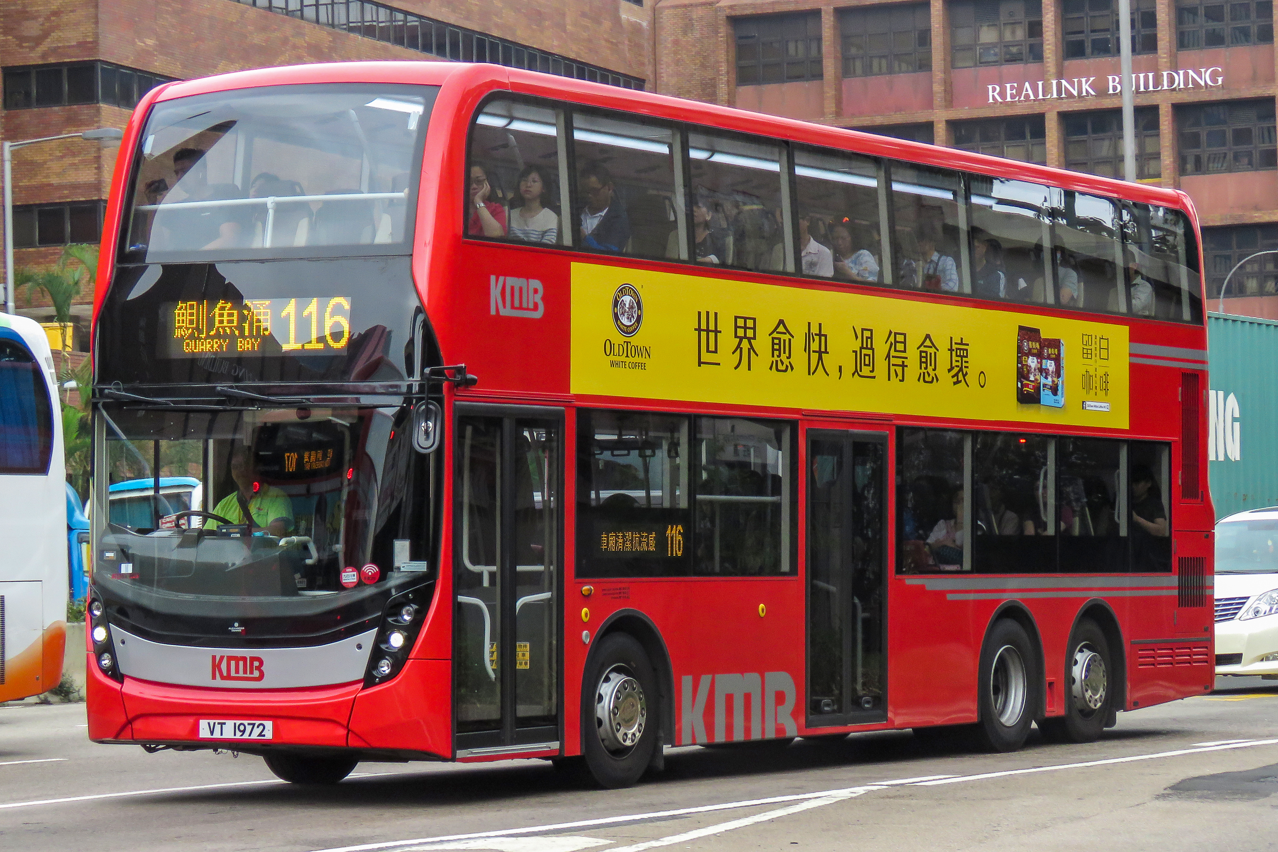 OldTown White Coffee has several interesting banners on buses in Hong Kong.